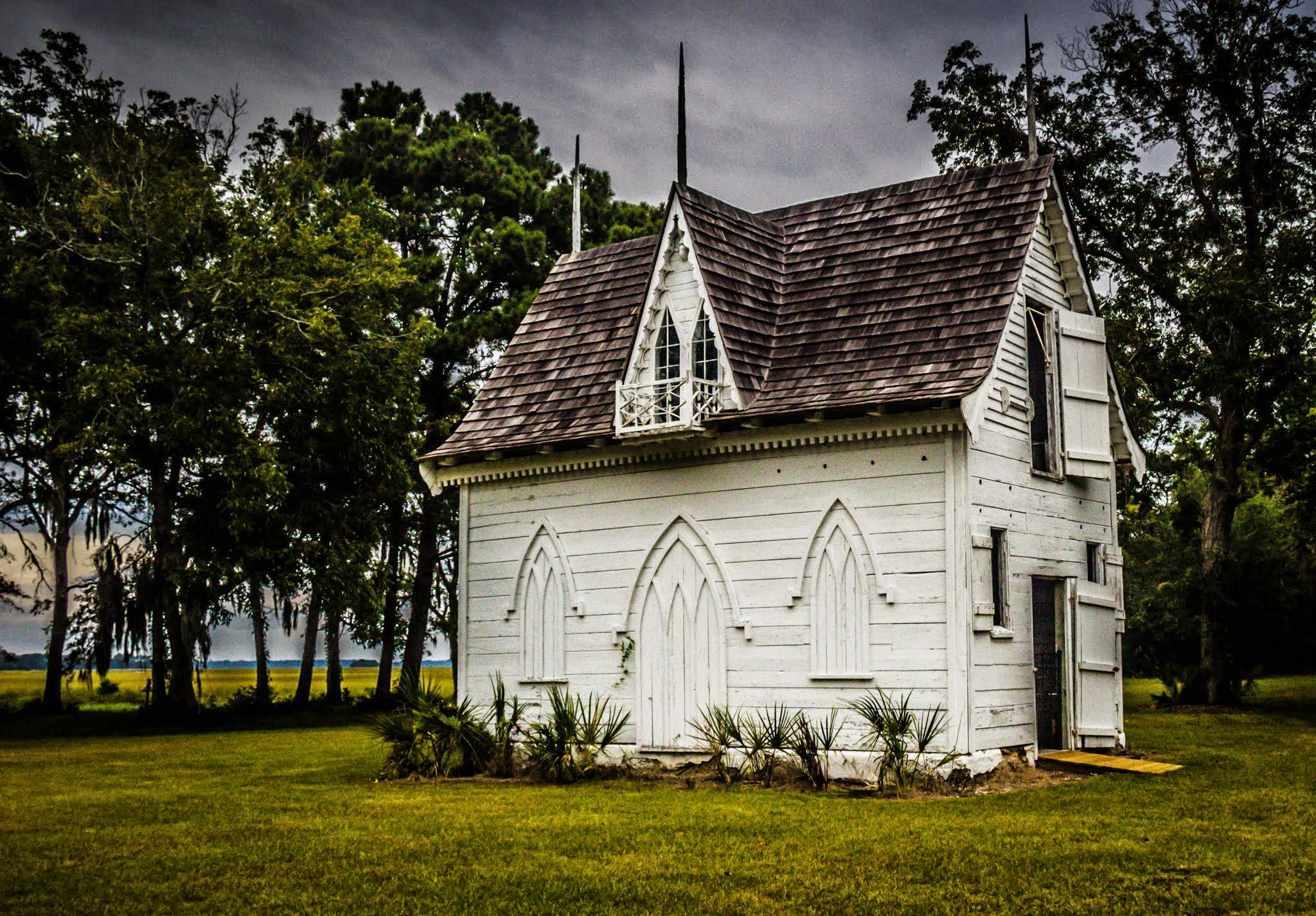 Botany Bay Plantation Wildlife Management Area